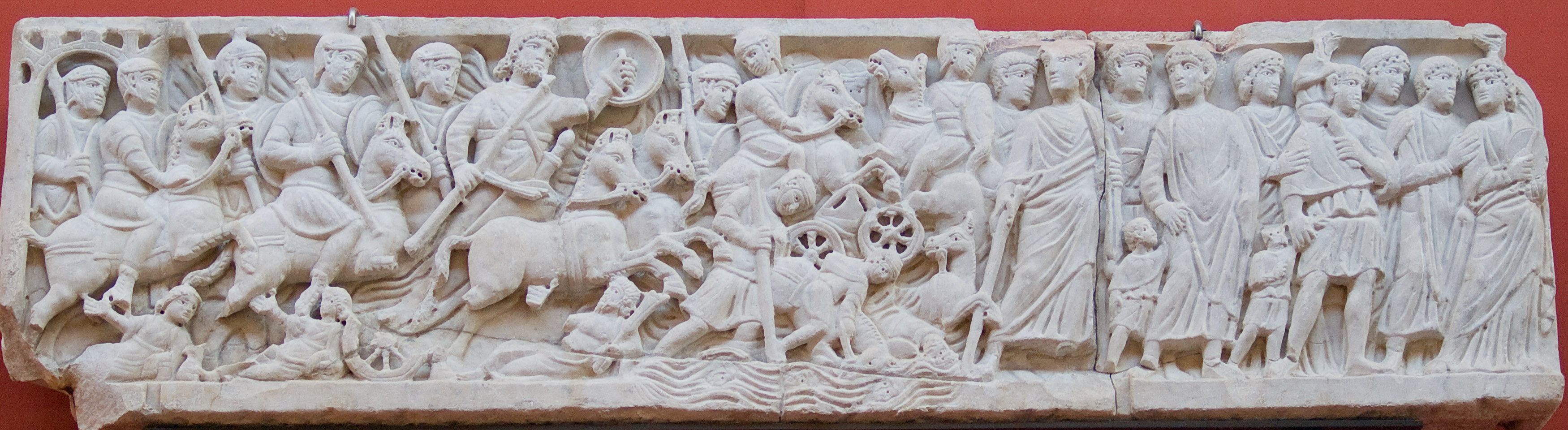 Paleochristian sarcophagus in Arles (Musée d'Arles antique). The Red sea crossing and the drowning of the Egyptians.